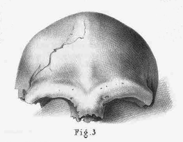 Neandertal 1, Holotype specimen of Homo neanderthalensis: Calvarium